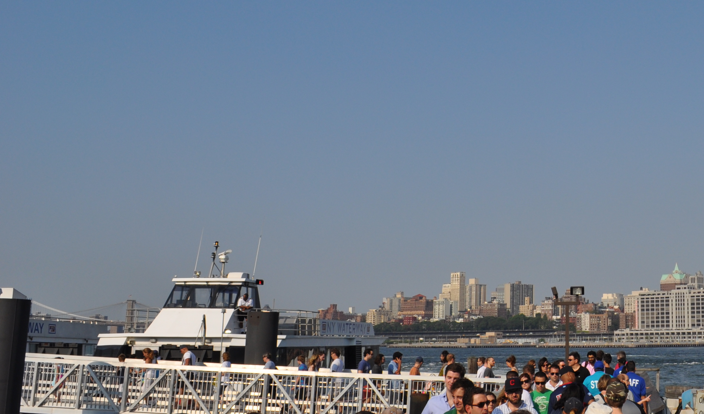 Passengers board and alight a ferry that operates between Governors Island and Brooklyn on summer weekends.